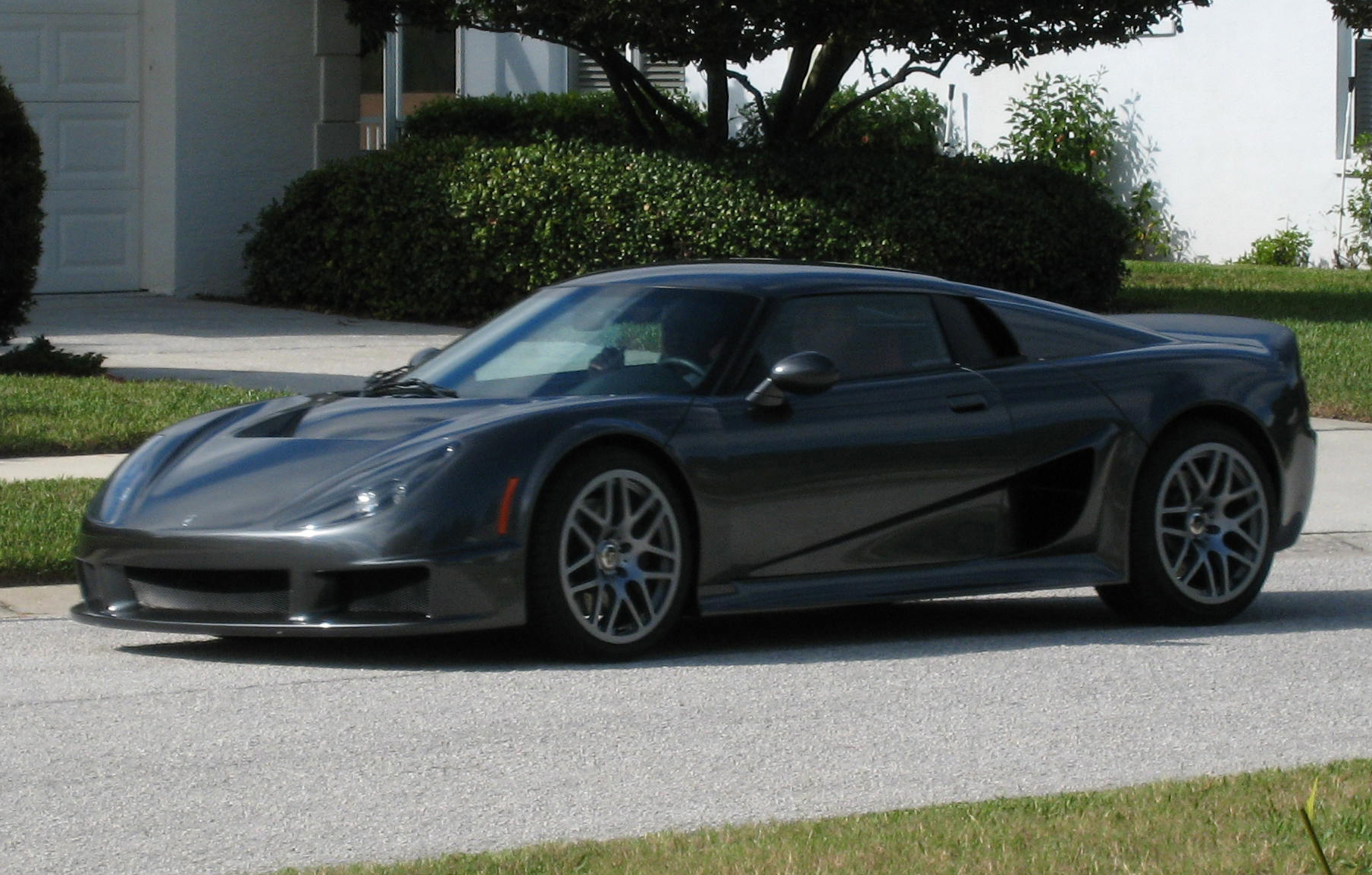 Rossion Q1 sports car (pre-production model)